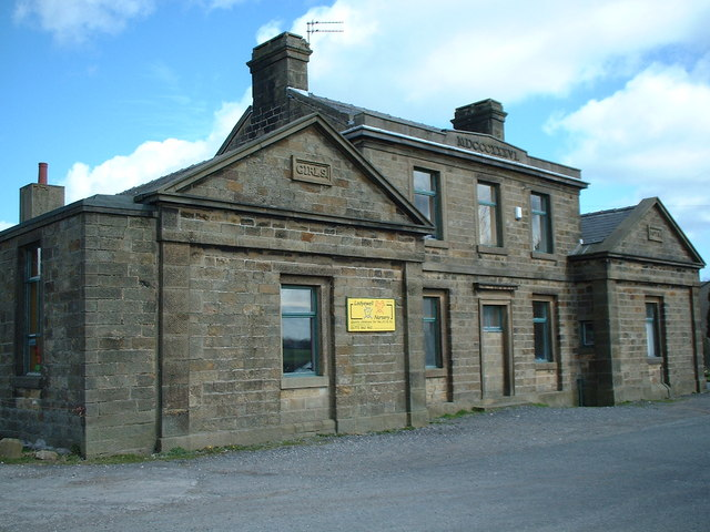 Ladyewell Nursery This building was originally Girls and Boys schools and, according to the Roman numerals above the upstairs central window, was built in 1836. It now houses a children's nursery.